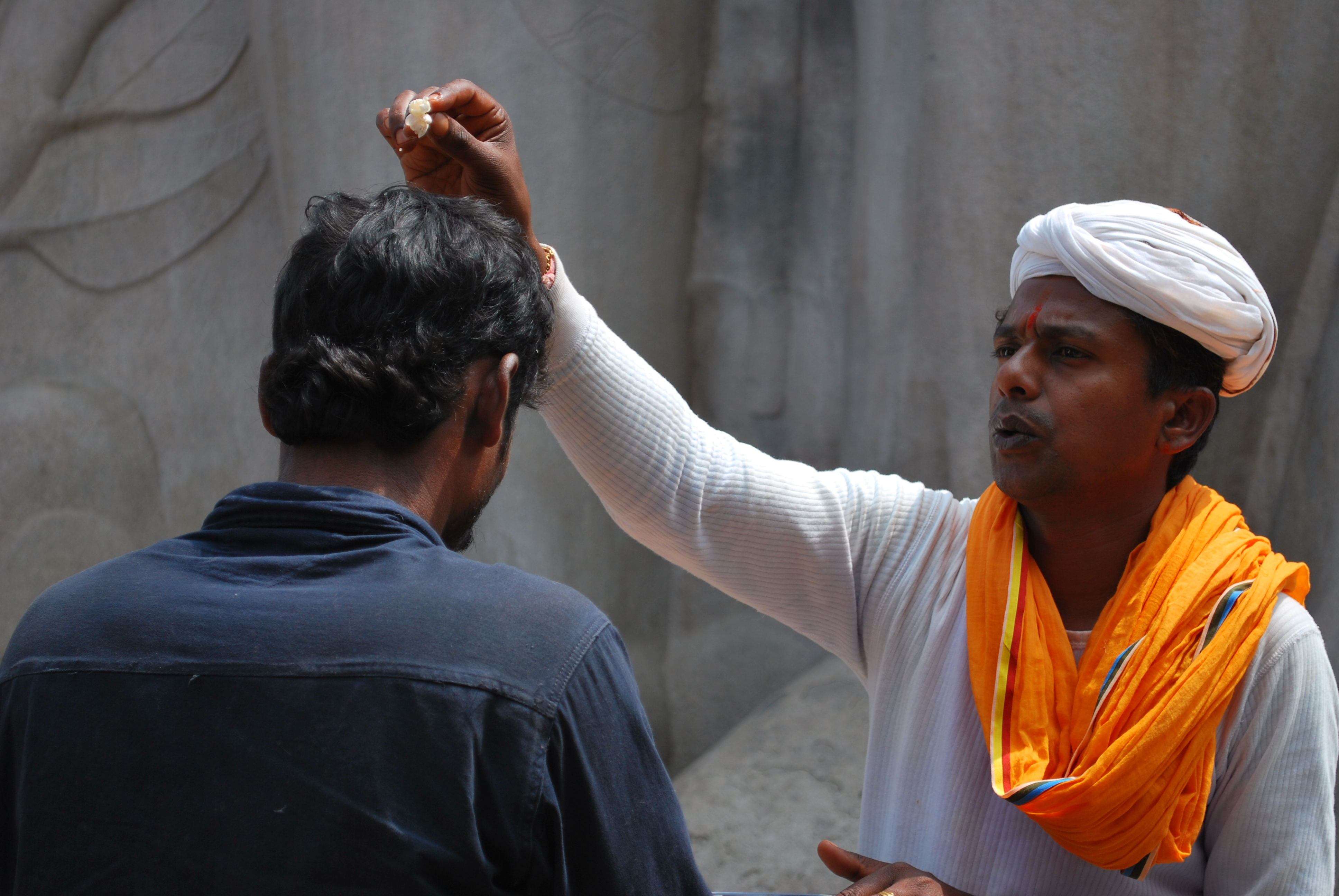 Hindu priest giving blessing in Belur, Karnataka.